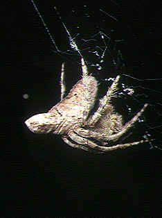 female Poltys columnaris from Okinawa.